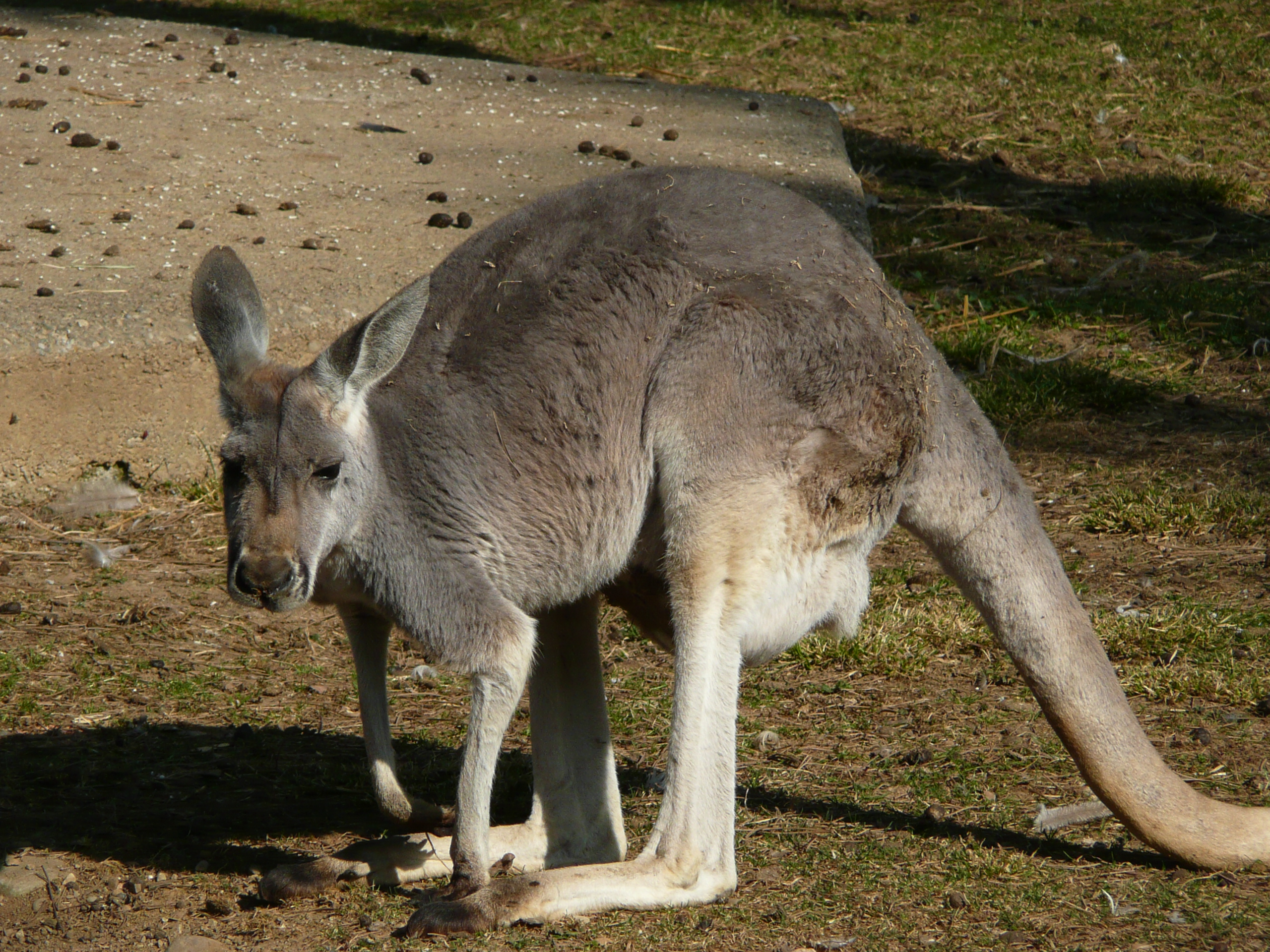 A Kangaroo in ITALY